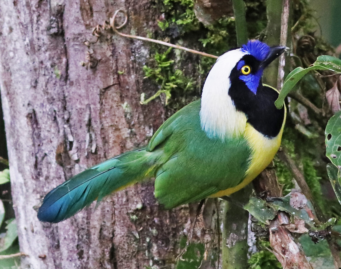 Inca Jay perched on a branch